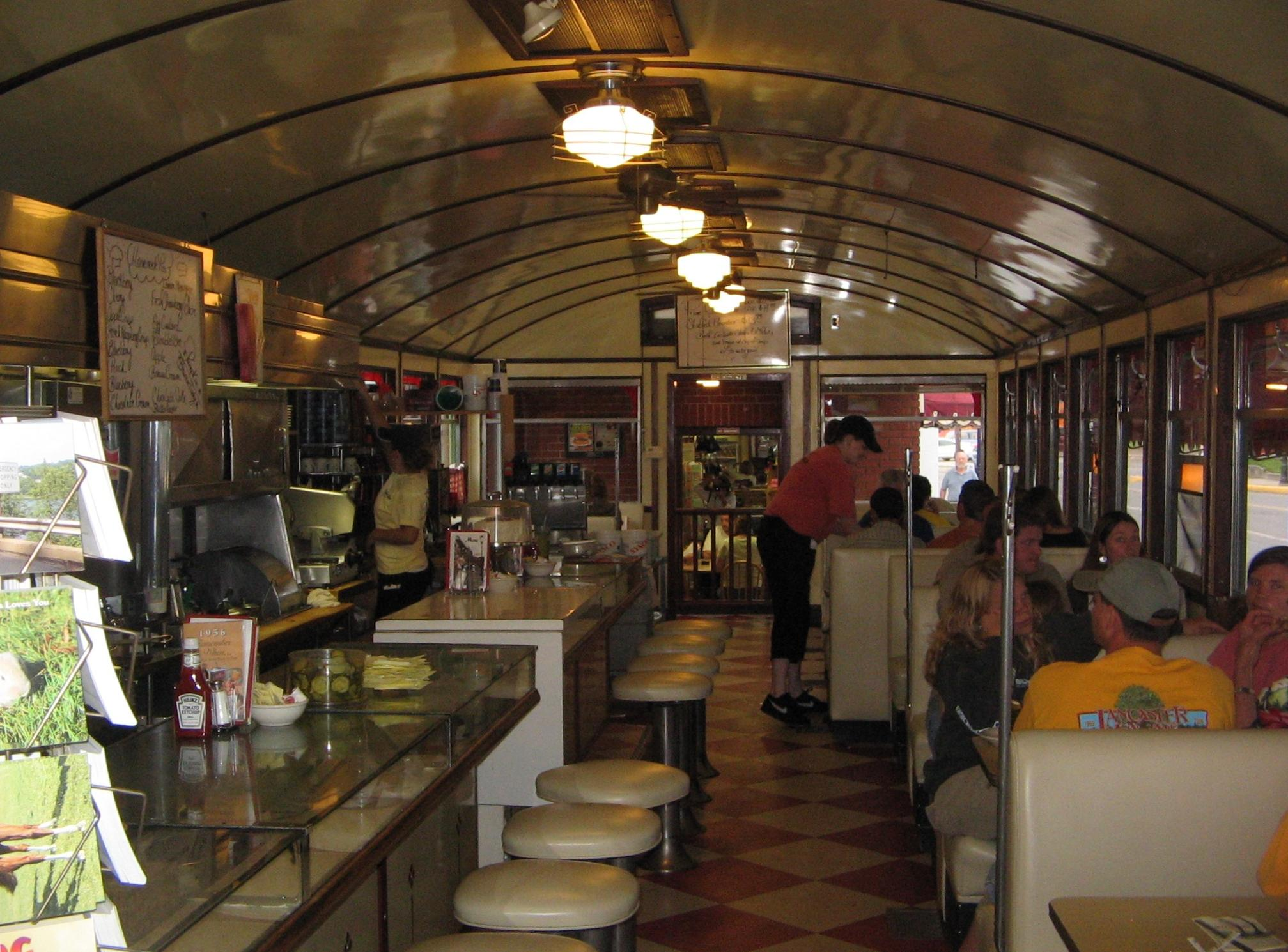 Interior of the 1938 Diner in Wellsboro, Tioga County, Pennsylvania, United States